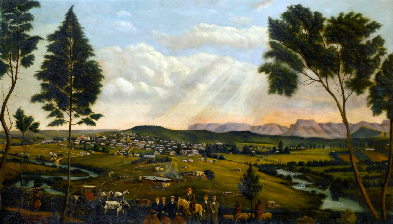 Panoramic view of Umtata and the Drakensberg mountains, Eastern Province, South Africa, oil on canvas, 42.1 x 72 in. / 107 x 183 cm.